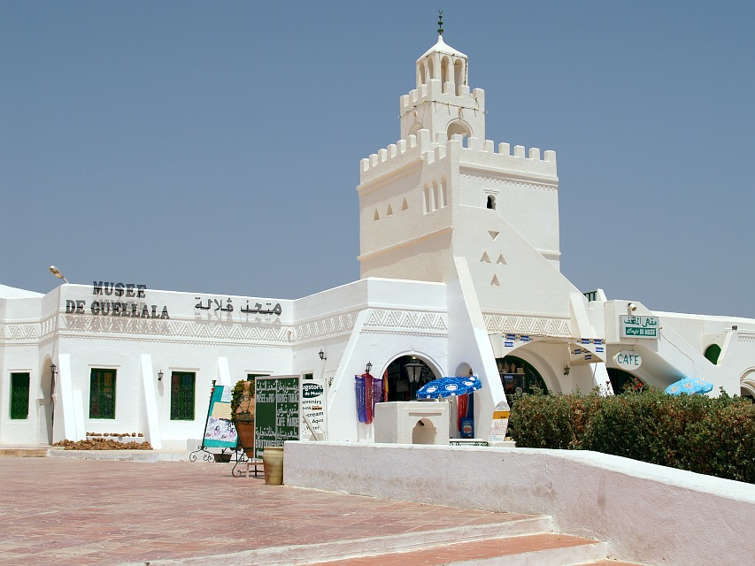 Guellala Museum - entrance